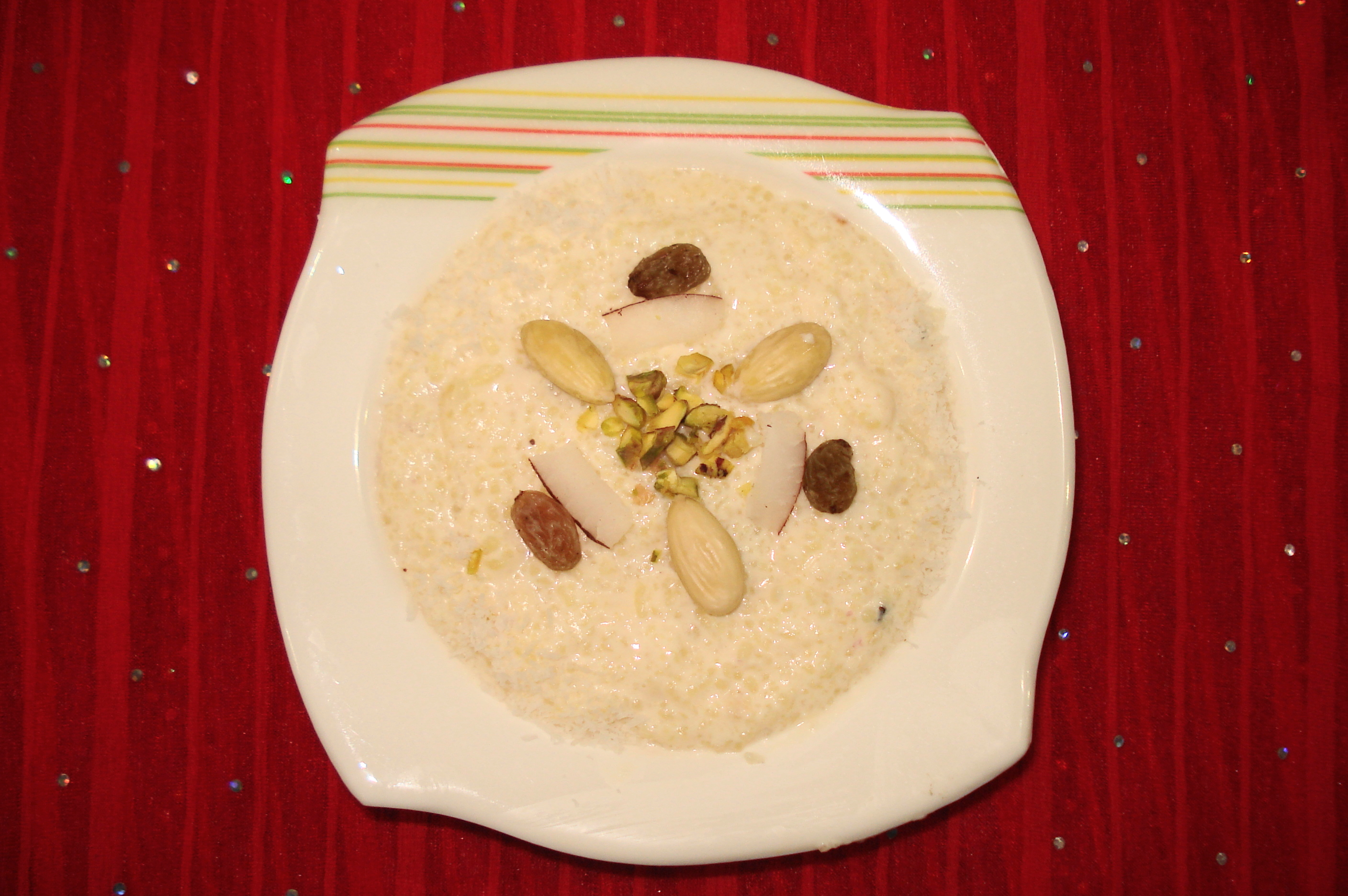 Kheer is a Pakistani Dessert